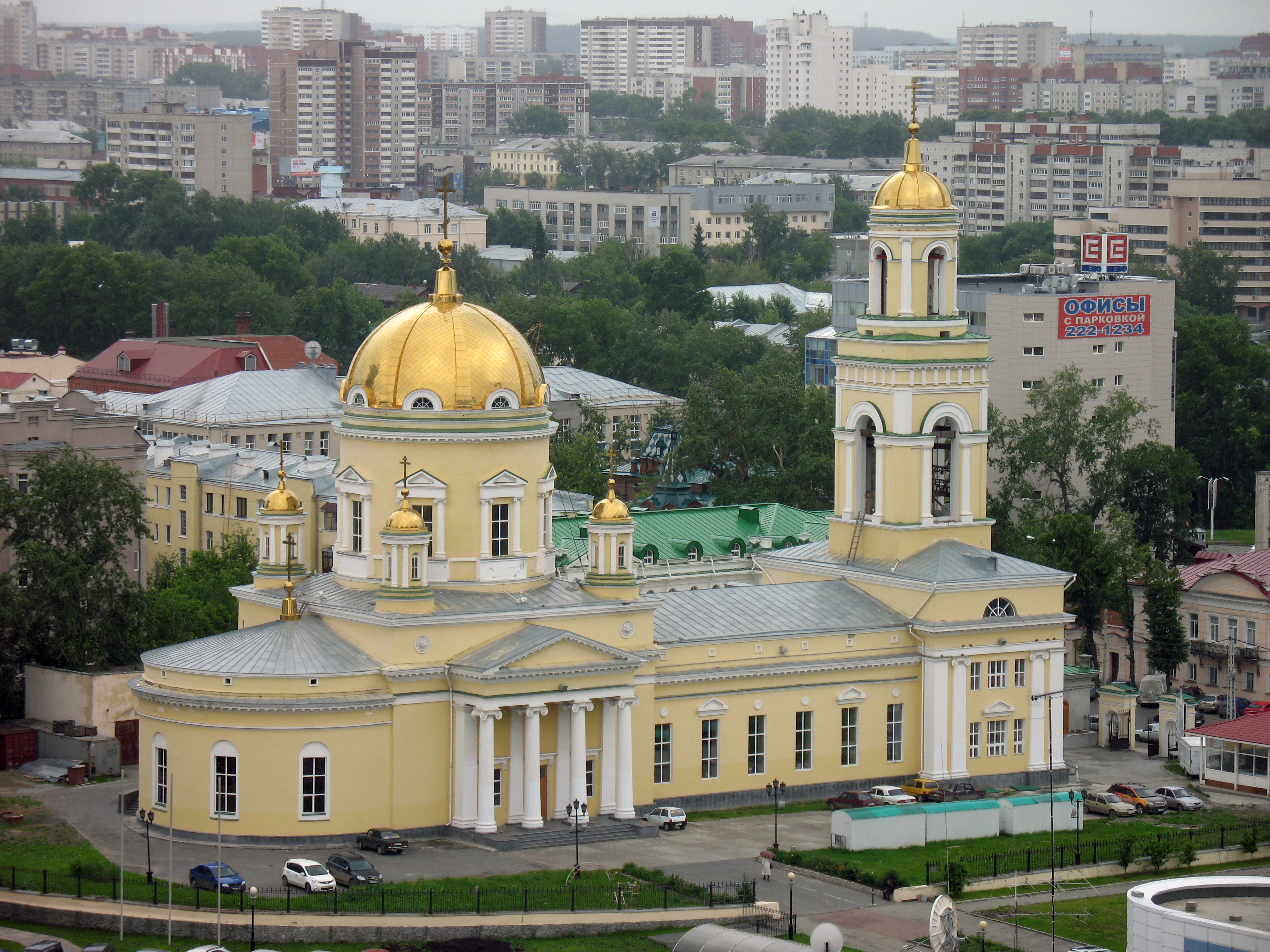 The Holy Trinity Cathedral in Yekaterinburg, Sverdlovsk Oblast, Russian Federation